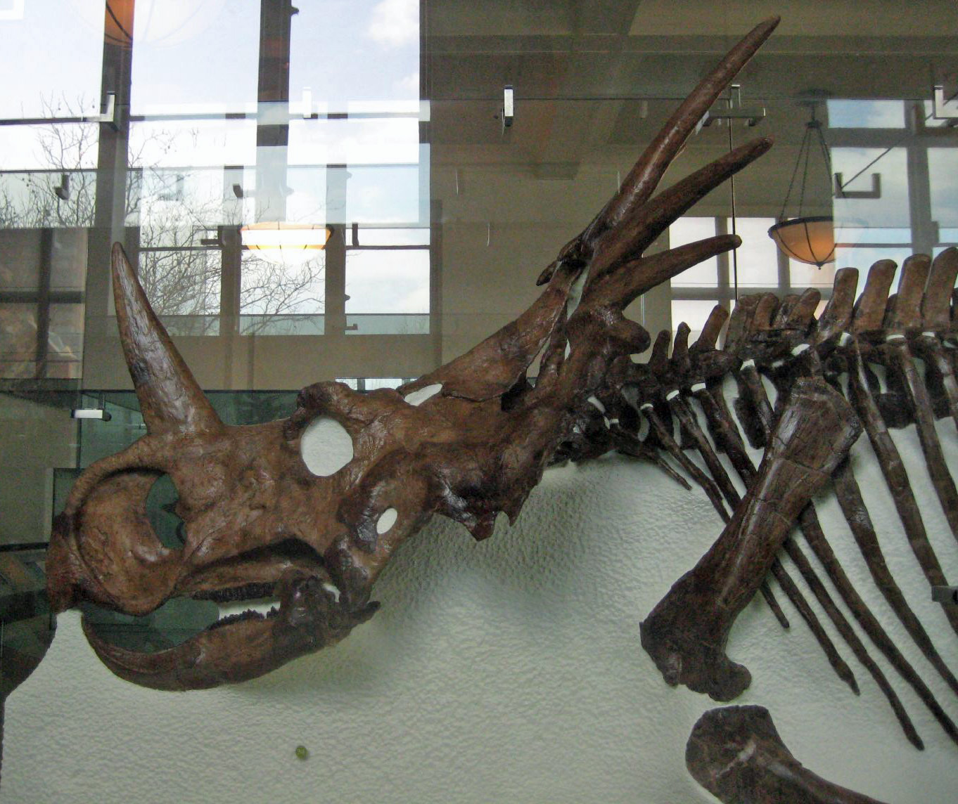 Styracosaurus albertensis skeleton, American Museum of Natural History. 75 million years ago.